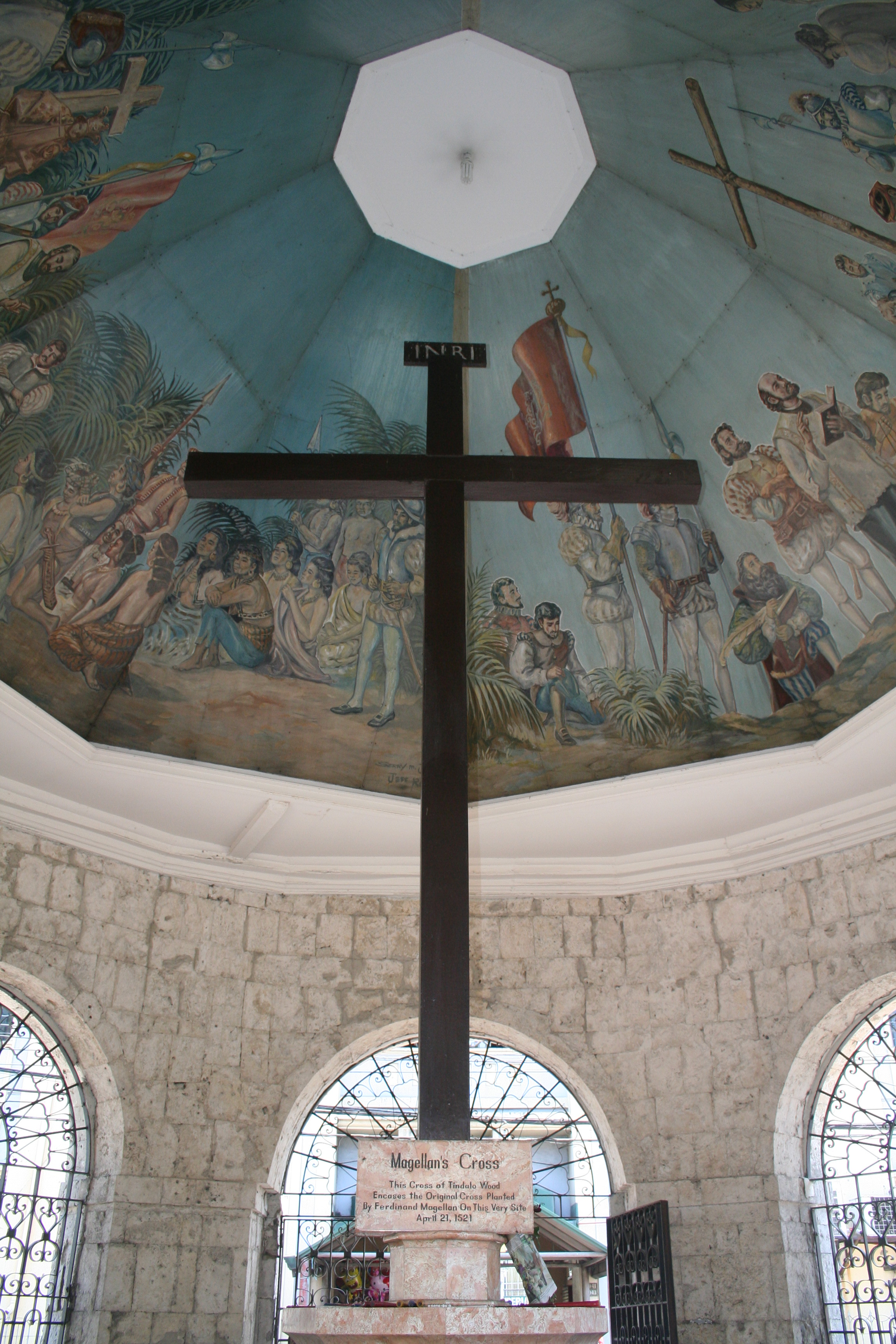 Full shot of Magellan's Cross in Cebu City, the Philippines.